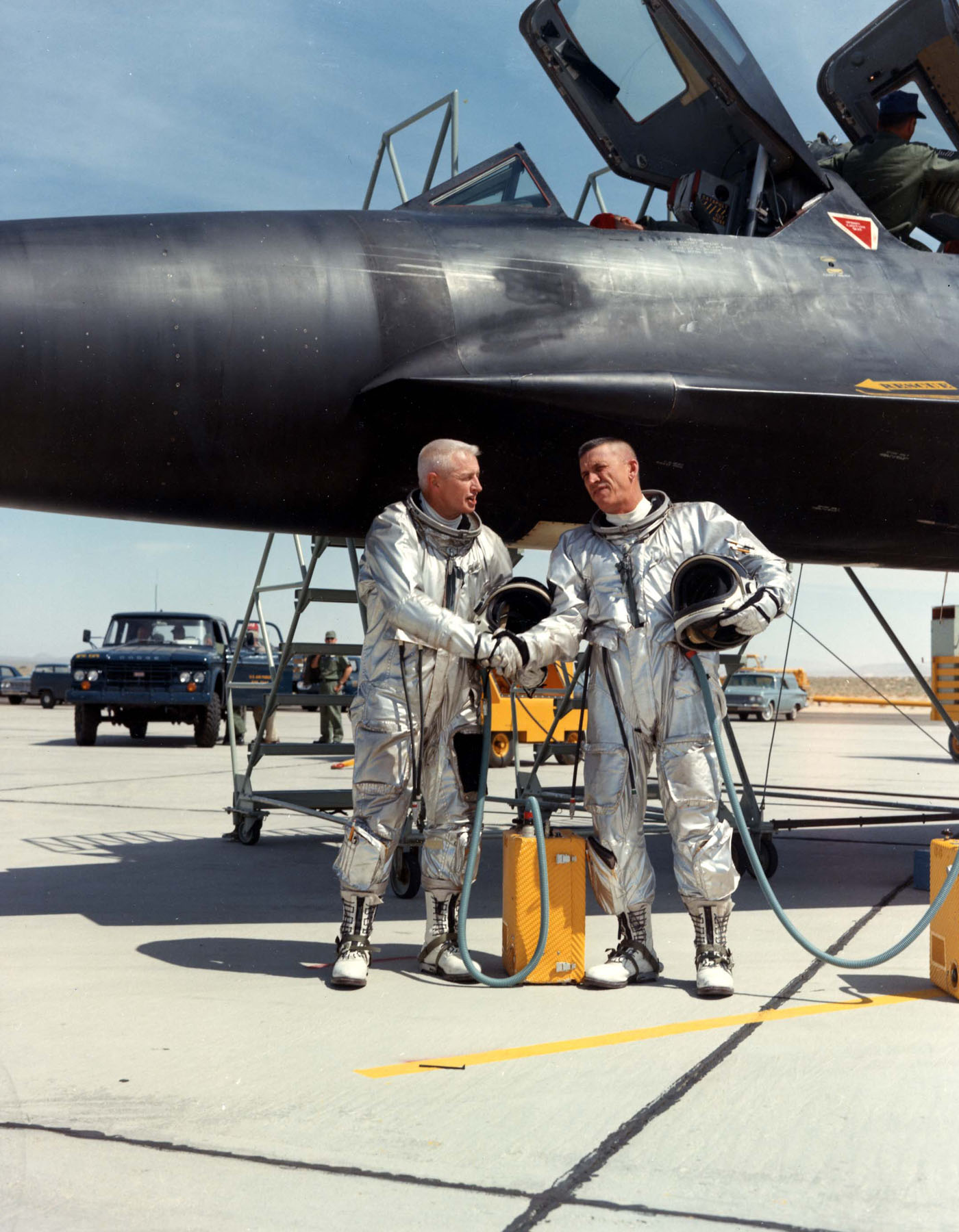 Lockheed YF-12 pilots